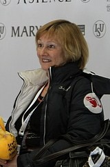 Ludmila Velikova at the 2010-2011 Junior Grand Prix of Figure Skating Final.